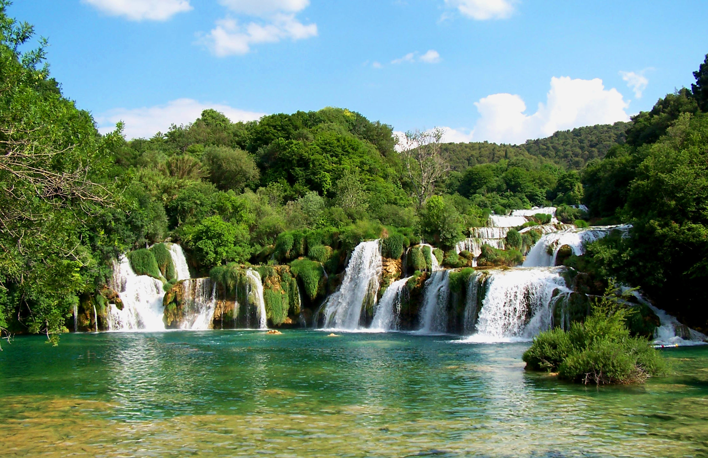 Picture taken by John Maxwell in June of 2005 at the Krka National Park in Croatia.